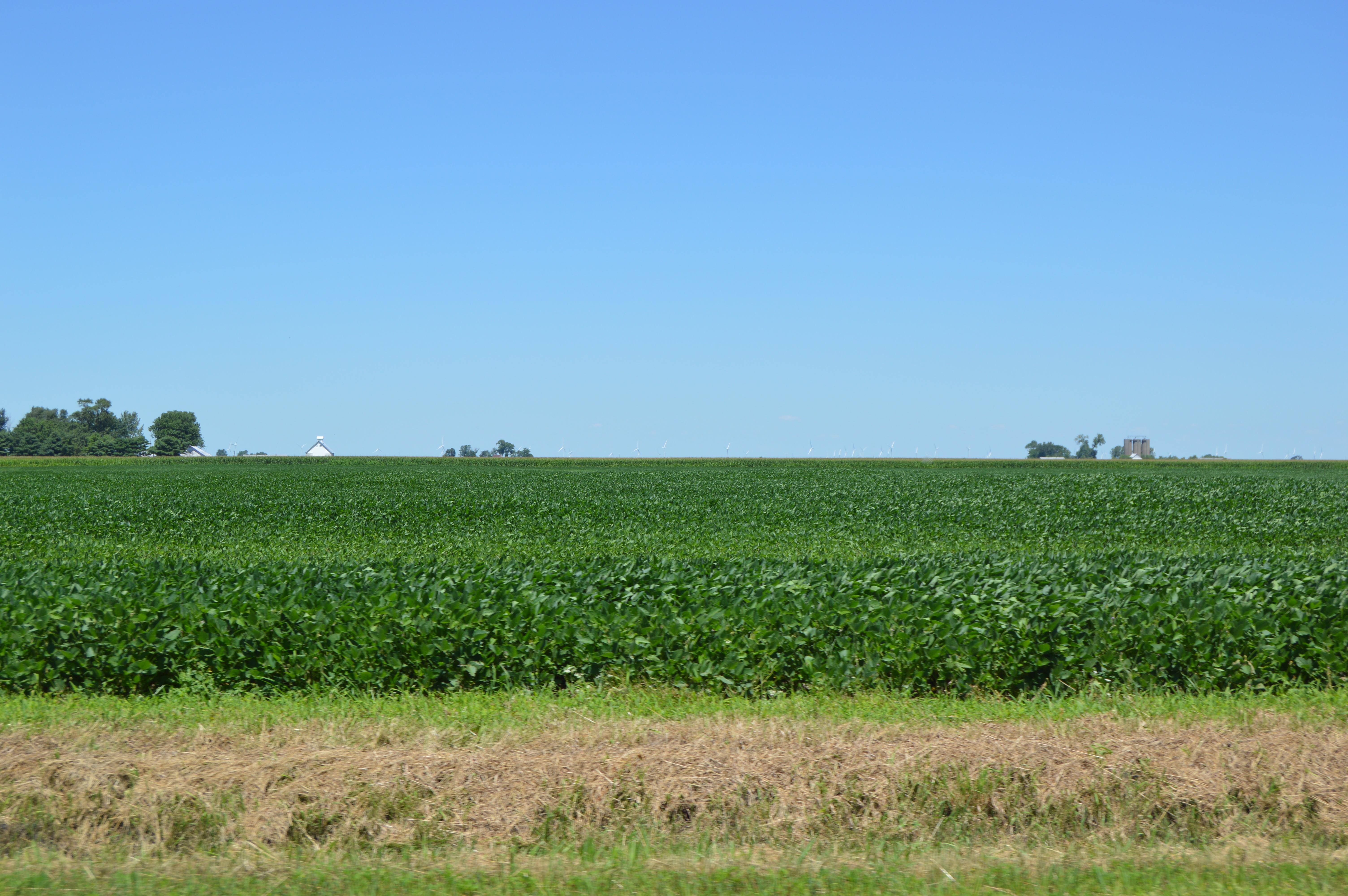 Soybean fields along the northern side of Illinois Route 116 east of Road 300 East in Ashkum Township, Iroquois County, Illinois, United States.